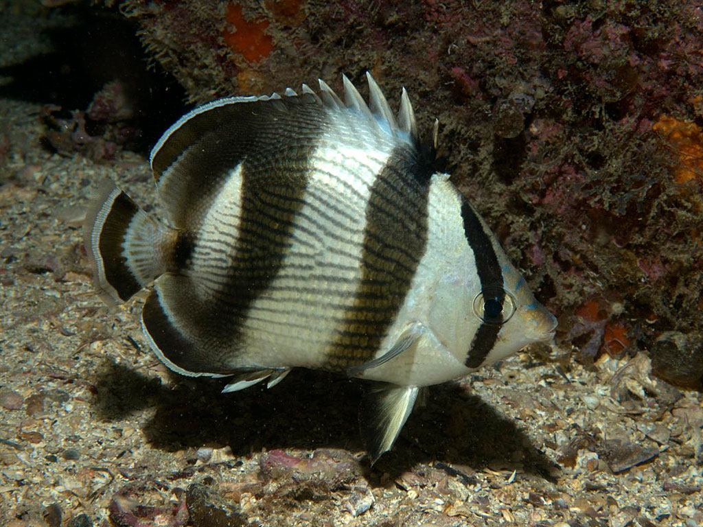 Banded Butterflyfish Chaetodon striatus Linnaeus Image taken by Bernard E. Picton. Nikon D70 in Subal housing with Nikon SB800 flash Location: Dos Gravatás, Buzios, Brasil, night dive